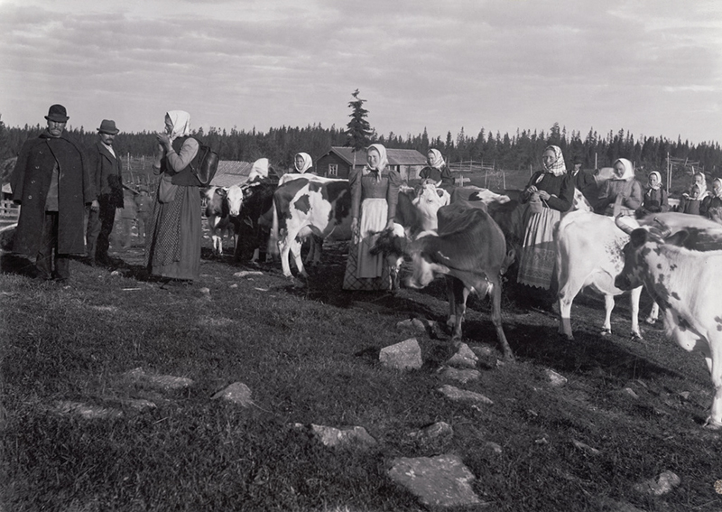 depicted place: Dalarna, Malung (Sverige (SE))